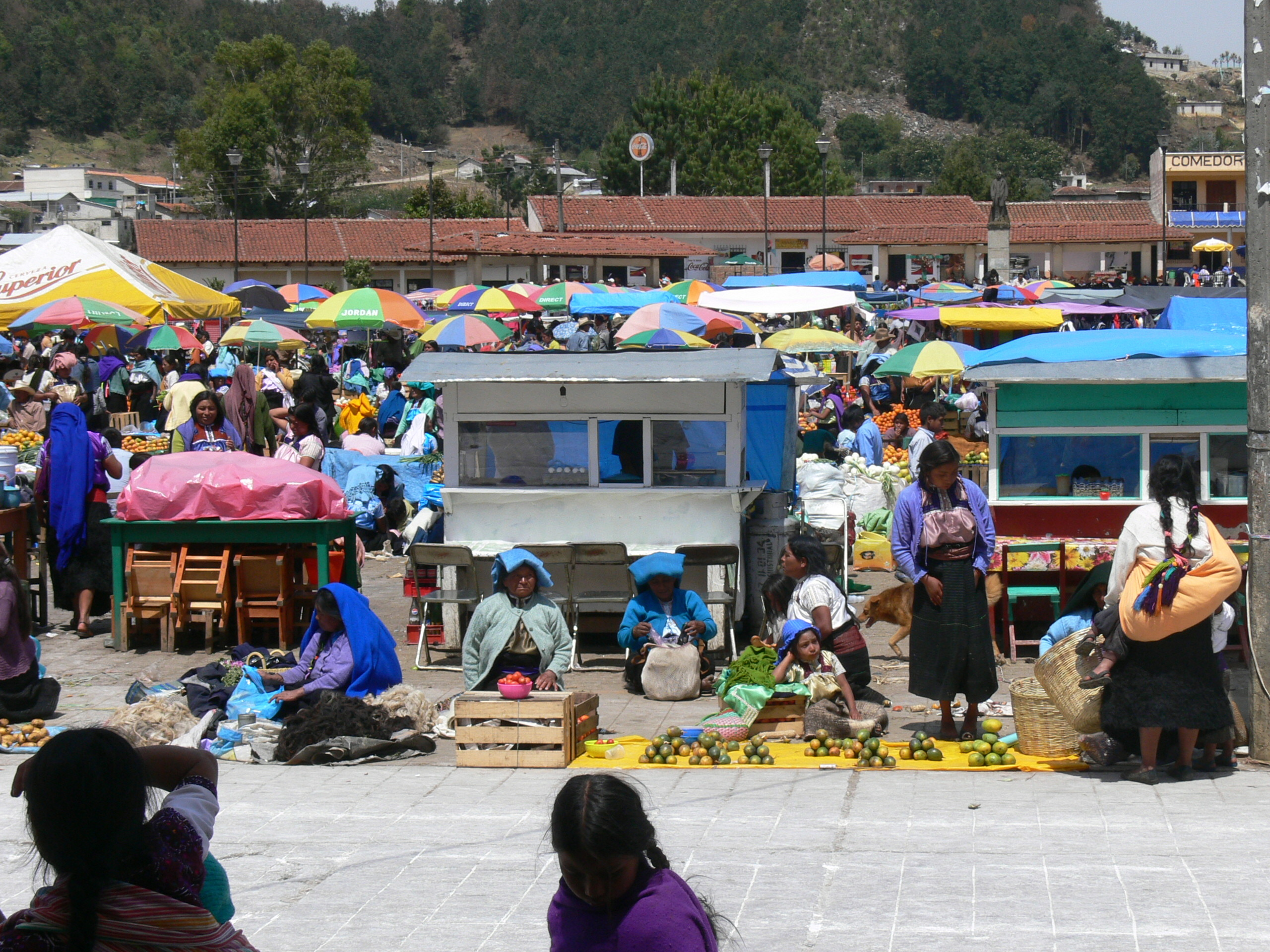 San Juan Chamula ( Chiapas ). Market scene.